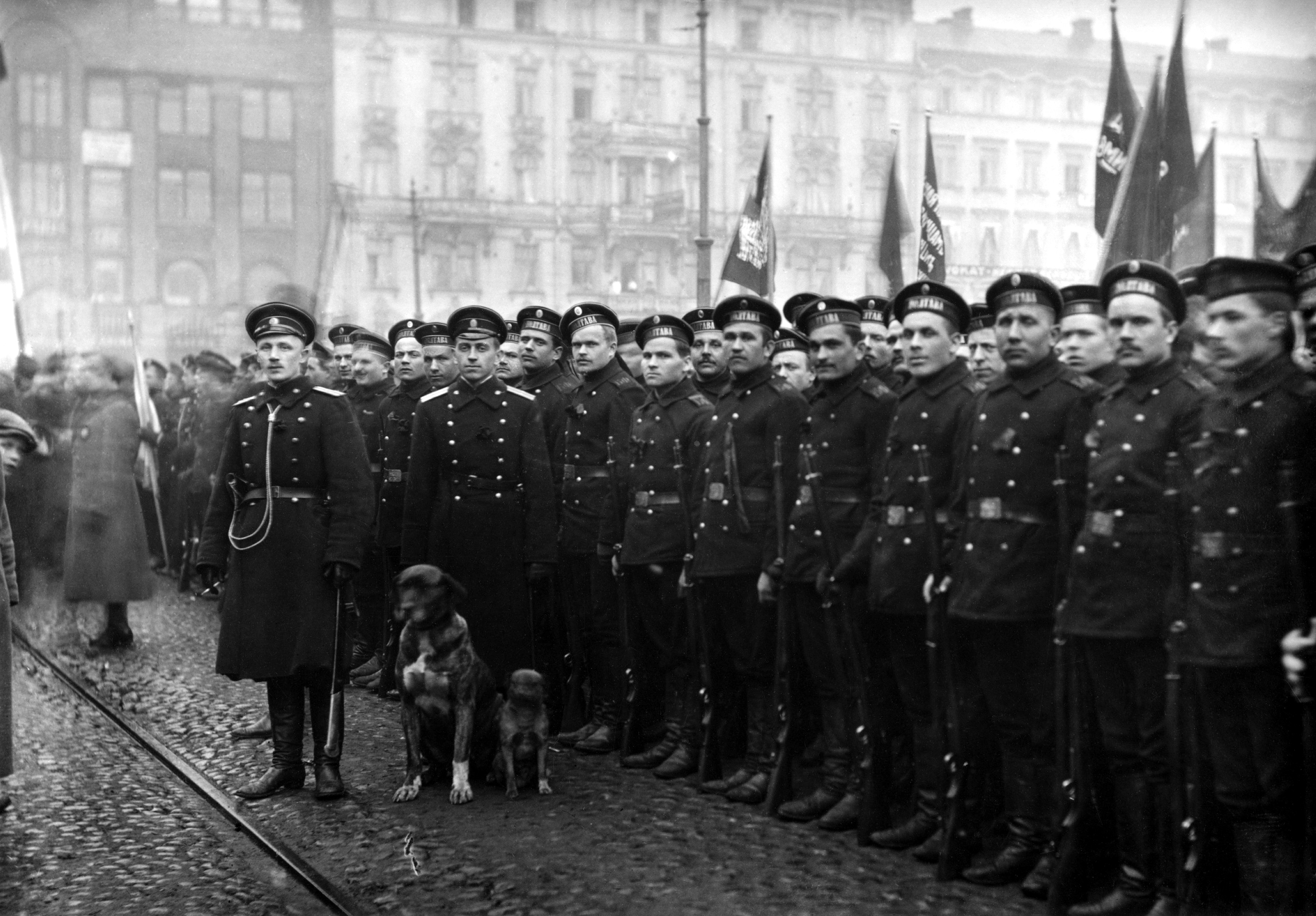 February Revolution of Russia 1917, celebrating the revolution in Helsinki. Russian sailors at Helsinki Railway Square in front of the Finnish National Theatre.